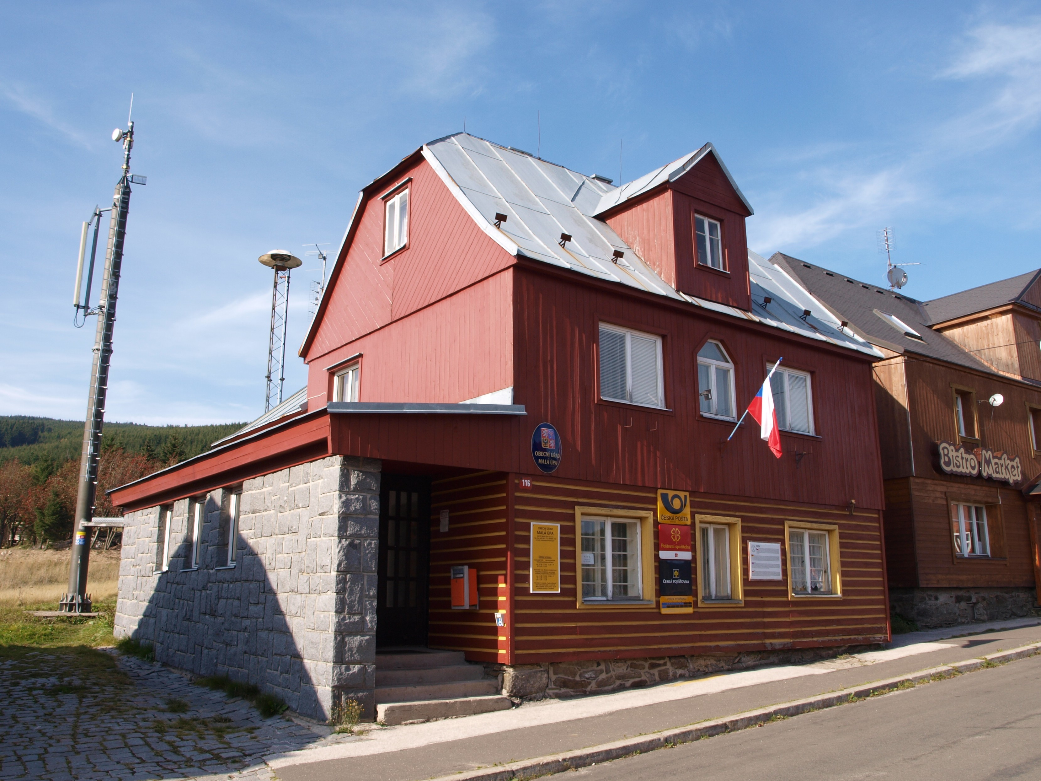 Post and Municipal building, Pomezní Boudy, Krkonoše